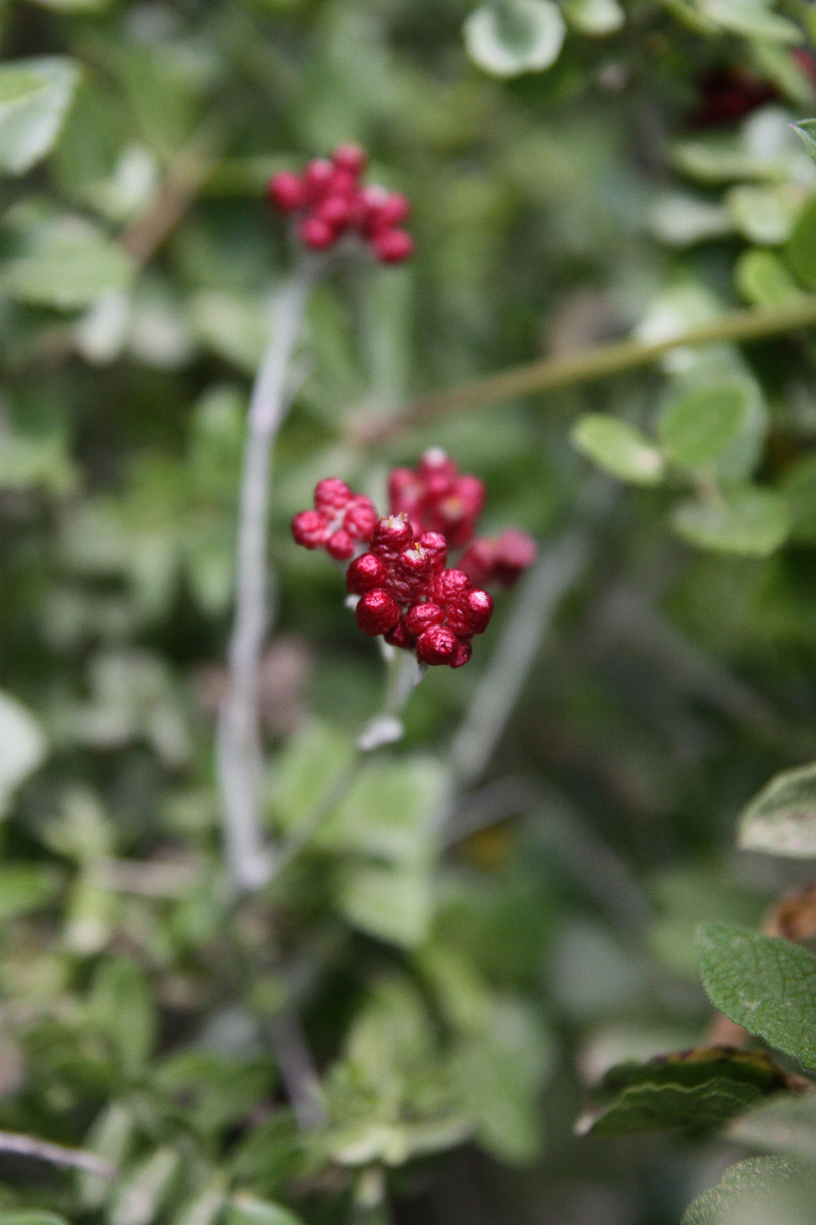 Mount Carmel